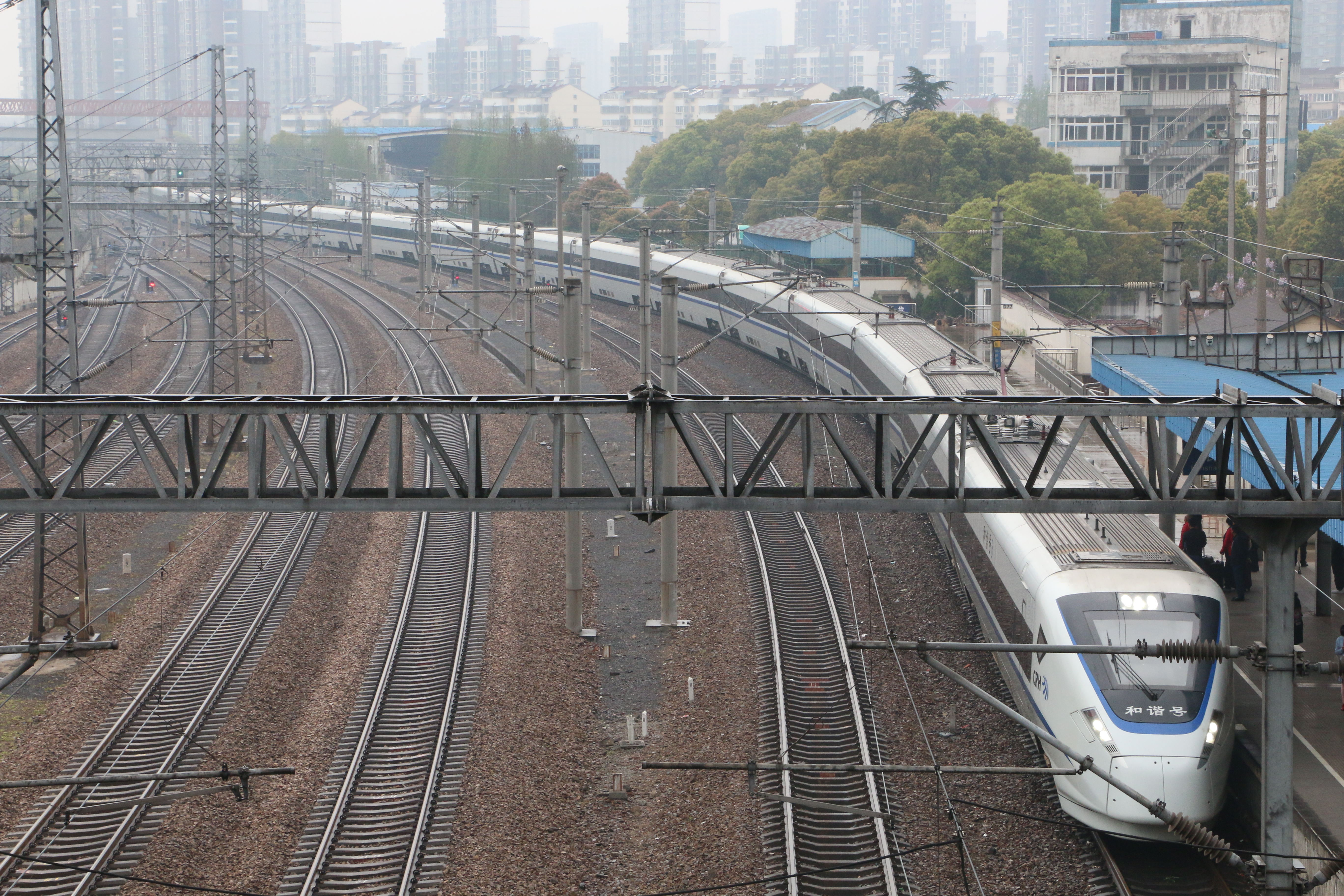 201604 CRH1E enters into Kunshan Station